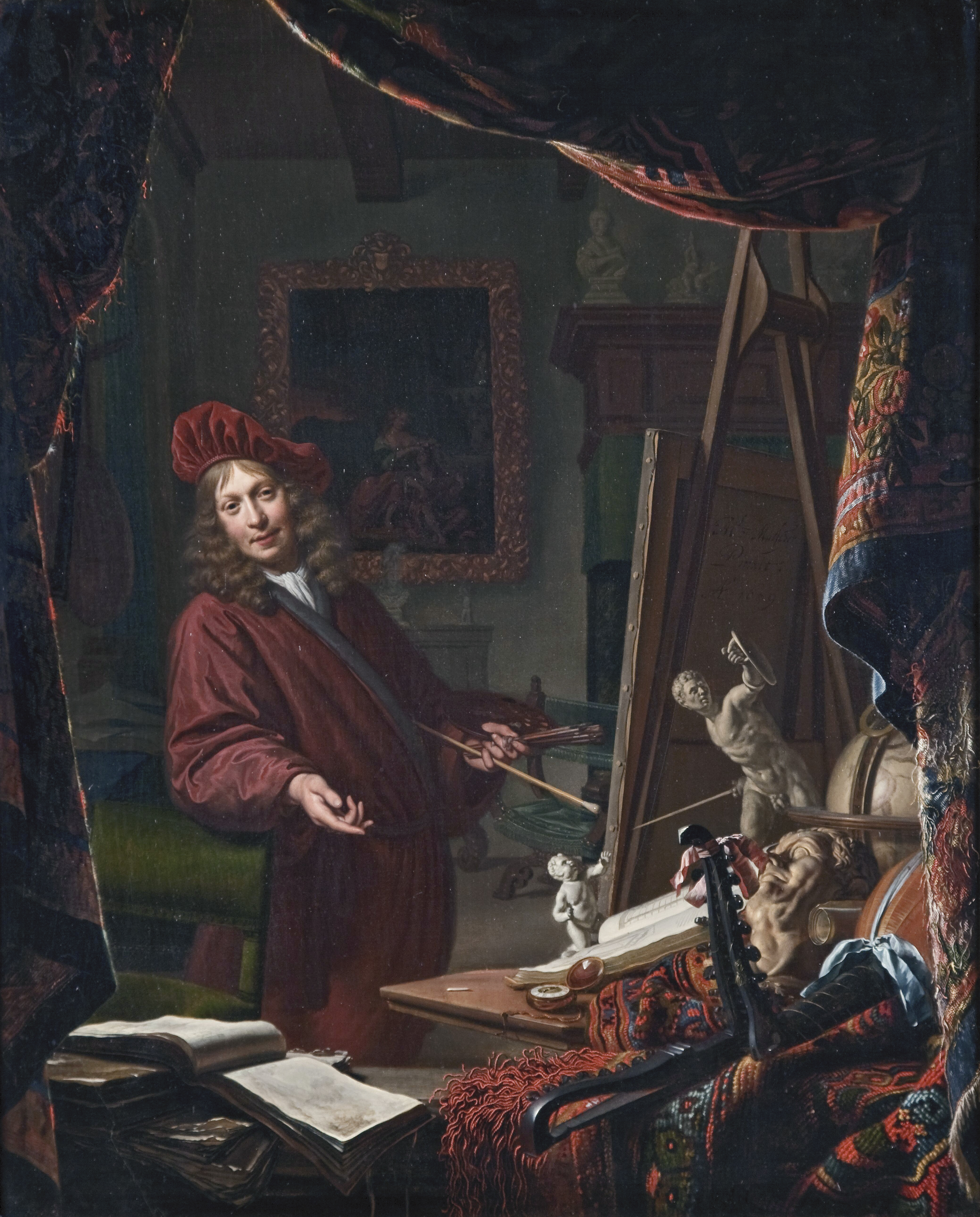 Self-portrait in the studio